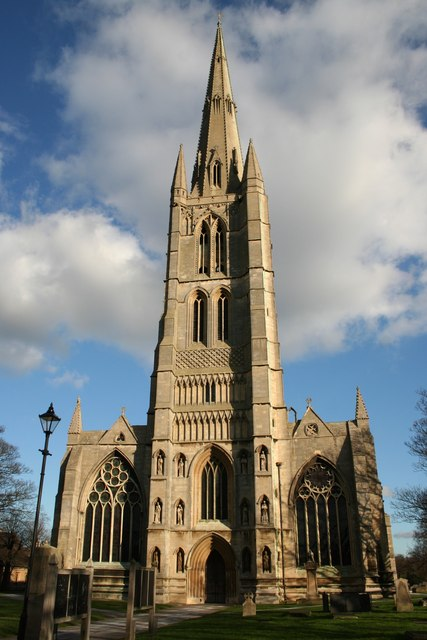 West front of St Wulfrum's parish church, Grantham, Lincolnshire